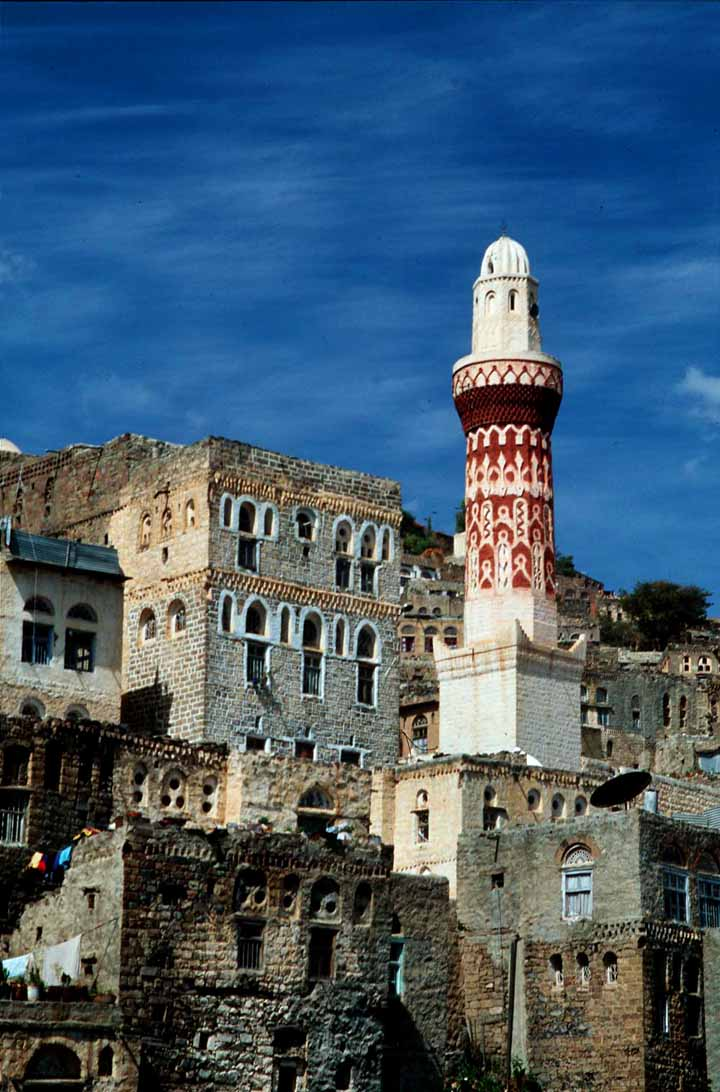 Minaret of Queen Arwa mosque, and town buildings, in Jibla, Yemen.